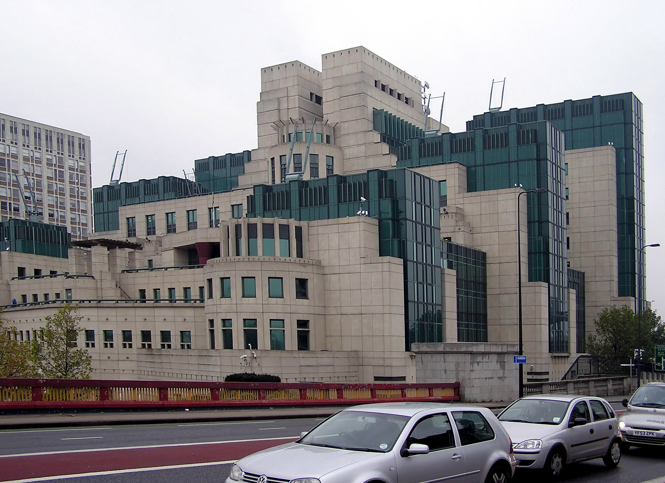 The MI6 building at Vauxhall Bridge, London, England.